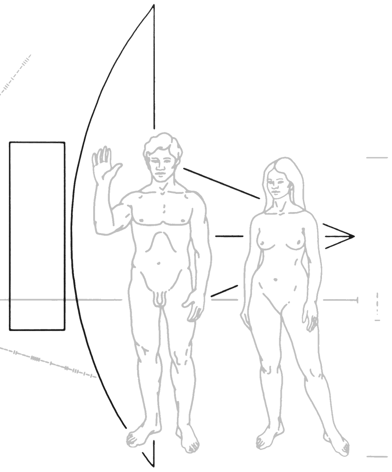 Detail from the Pioneer Plaques.